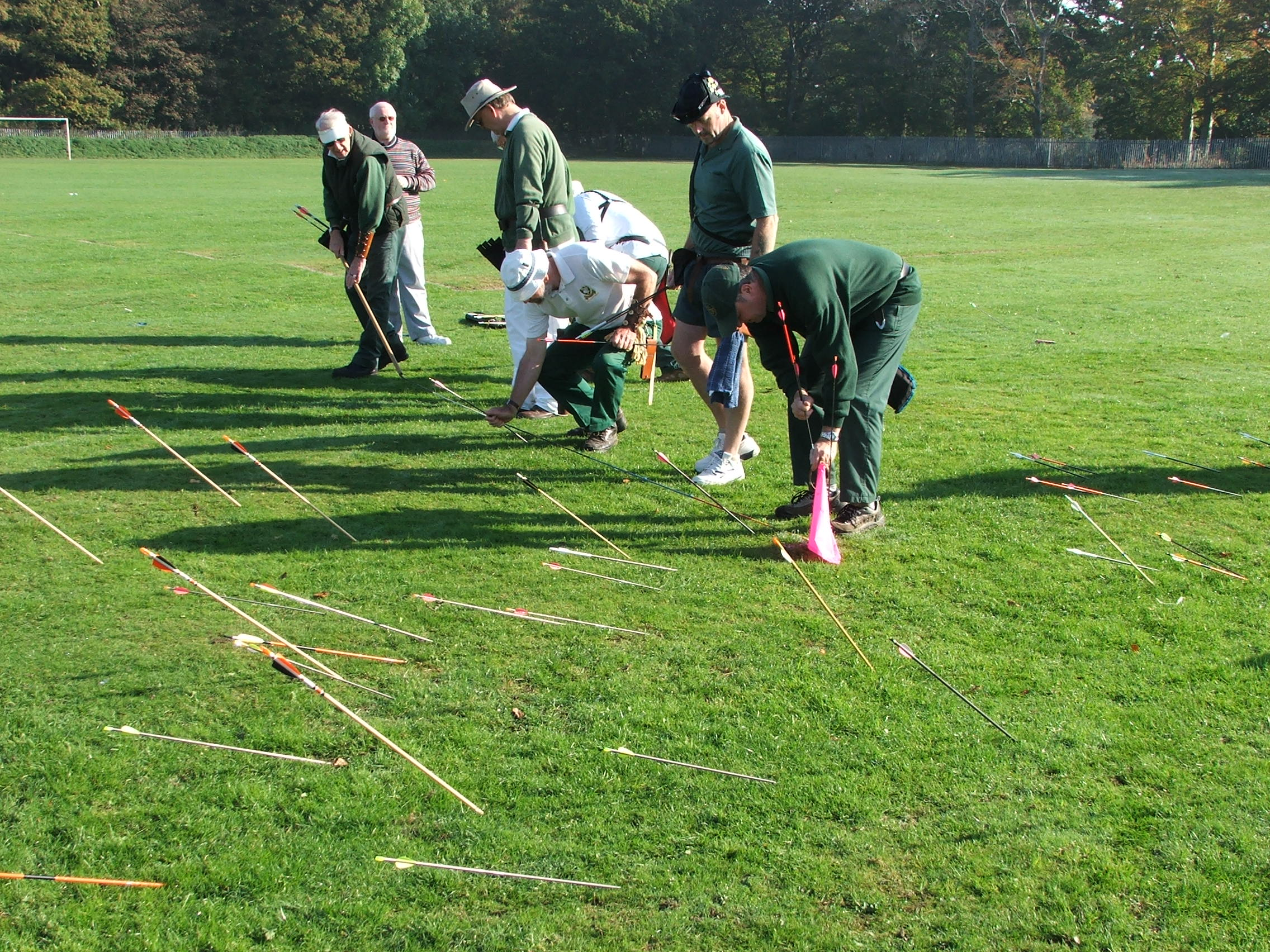 Archers collecting arrows for scoring during a clout shoot